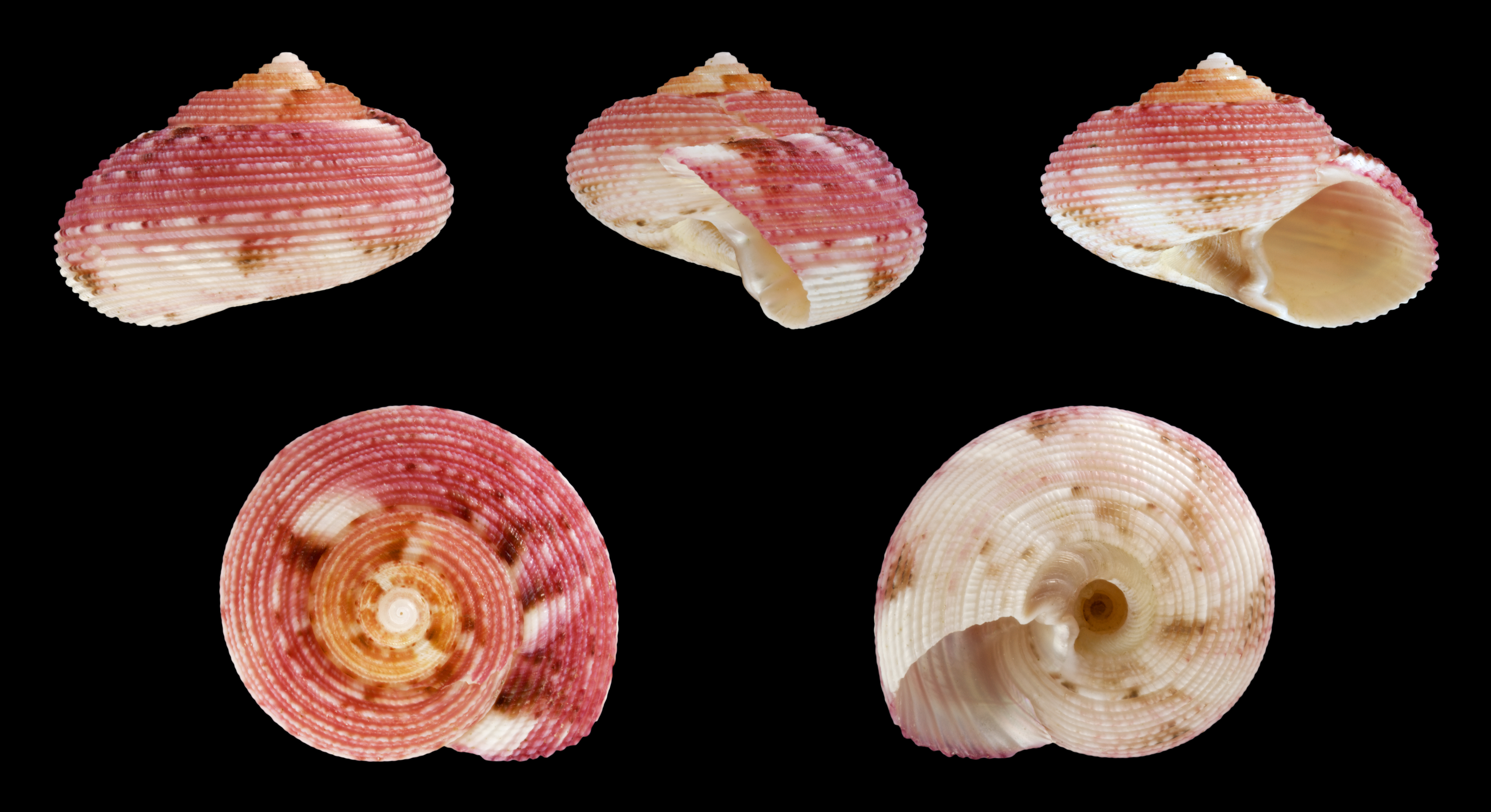 Belcher's Top Snail, red form; Diameter 1.9 cm; Originating from the Philippines; Shell of own collection, therefore not geocoded.